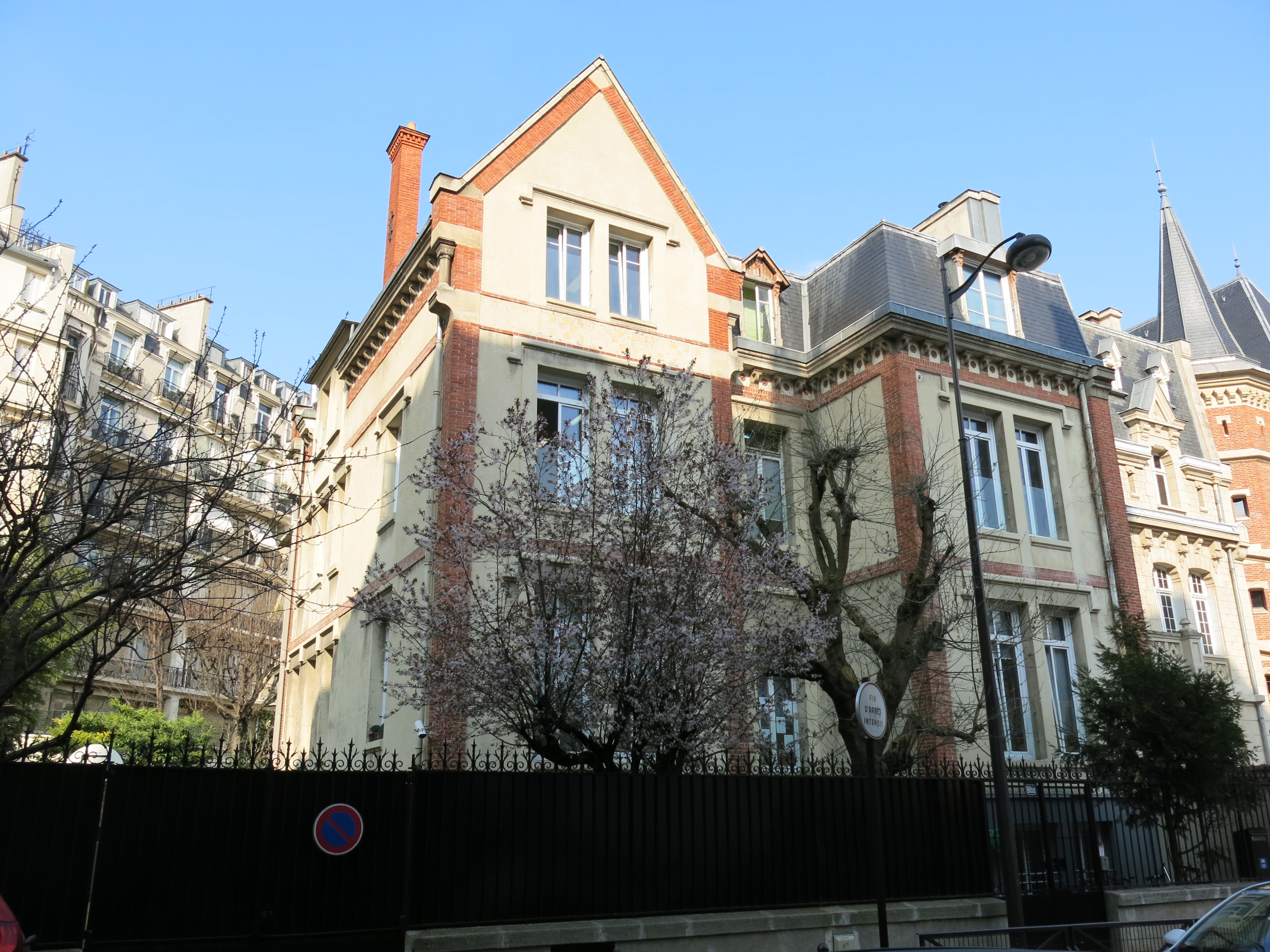 Building at 96bis rue du Ranelagh, Paris 16th arrond. - Primary campus of the International School of Paris